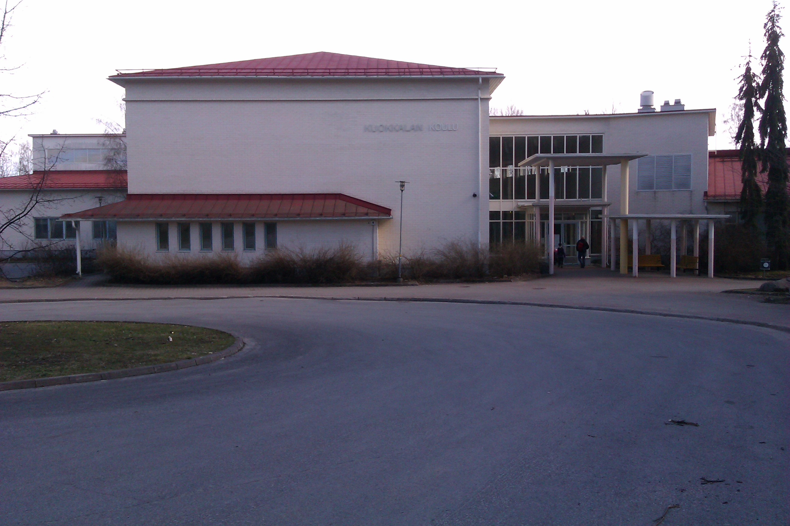 Kuokkala School, Jyväskylä, Finland